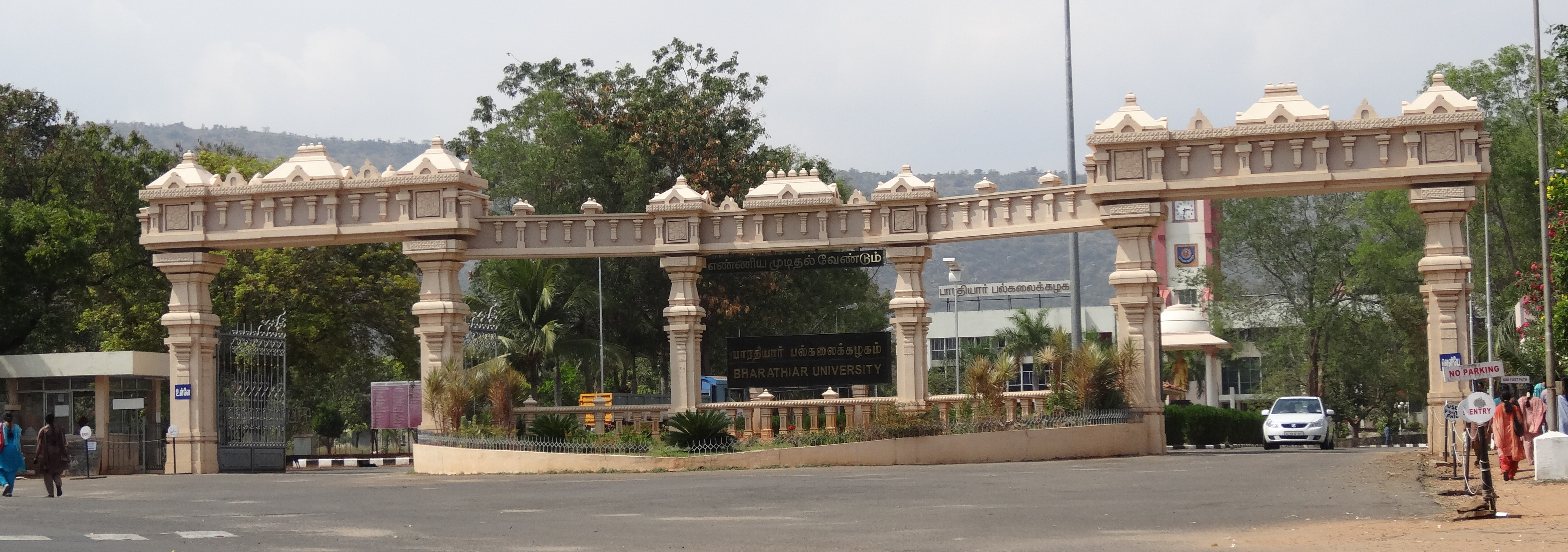 Entrance of Bharathiar University Coimbatore, India